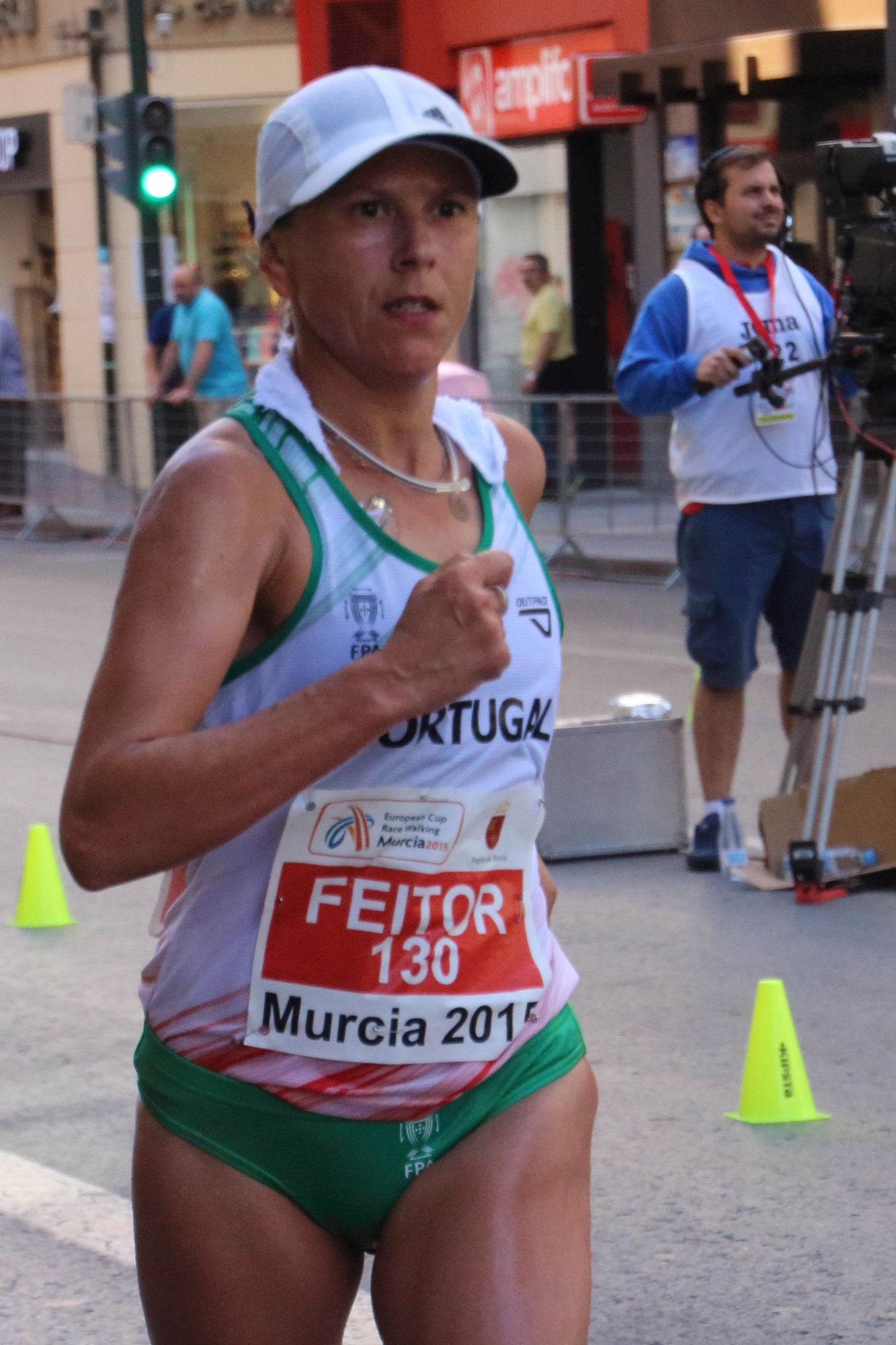 Susana Feitor, portuguese race walker, in the European Cup Race Walking 2015 (Murcia, Spain).